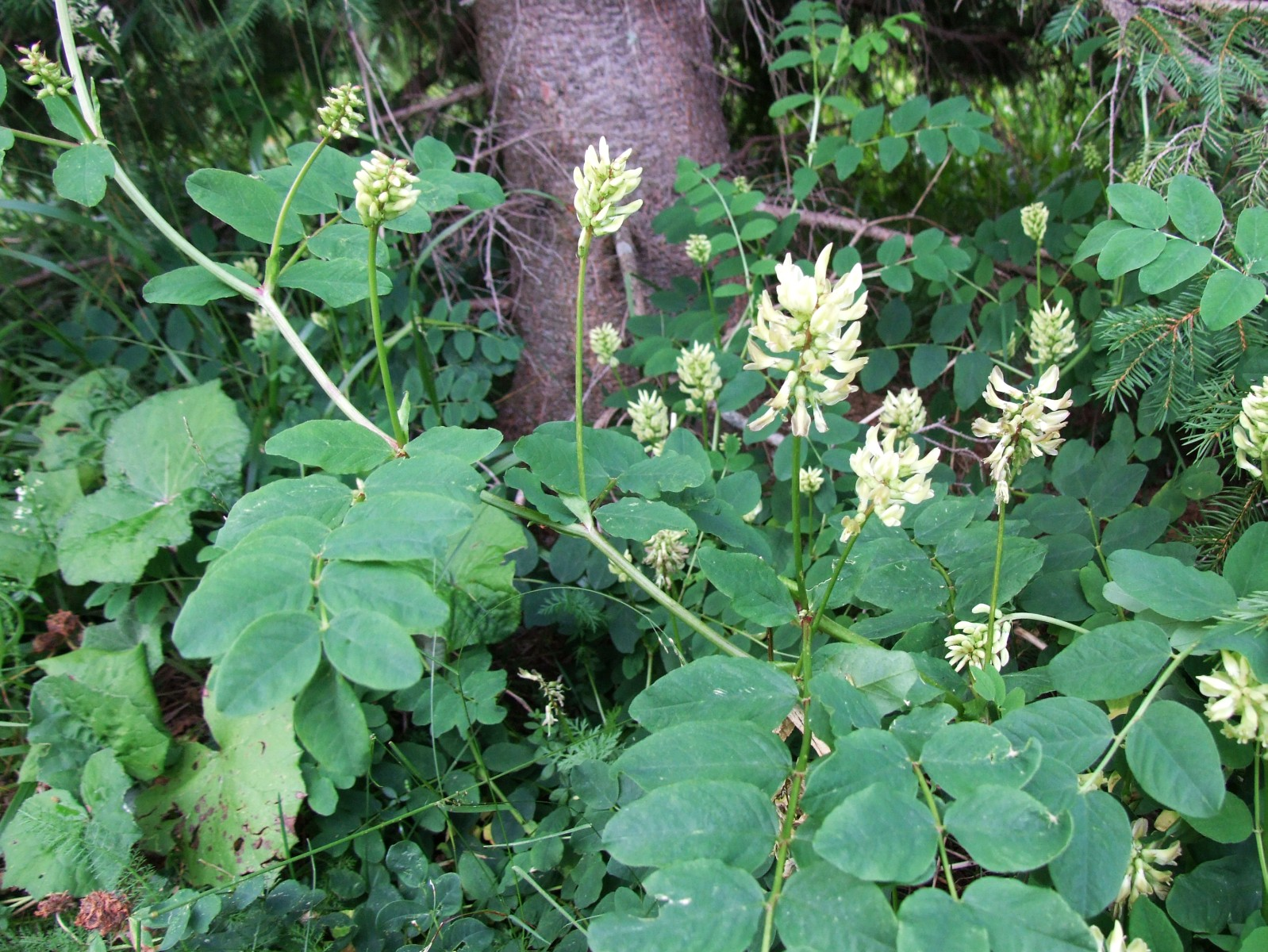 Astragalus glycyphyllos (pl. traganek szerokolistny), habitat: Dolina Spalona, West Tatra Mountains